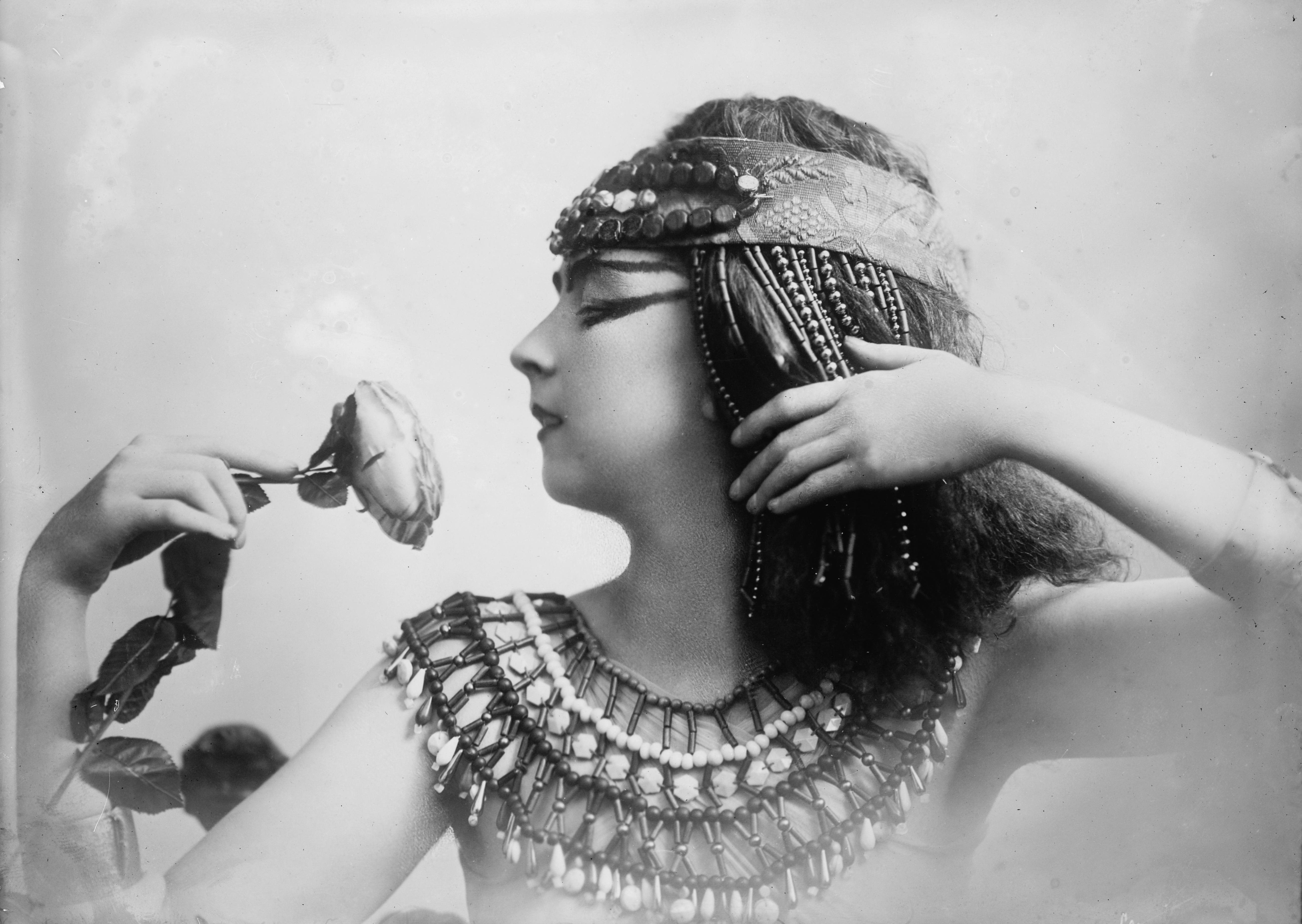 TITLE: Ruth St. Denis, actress, holding rose, in ancient-Egyptian influenced garb. CALL NUMBER: LC-B2- 1120-11[P&P] REPRODUCTION NUMBER: LC-DIG-ggbain-05584 (digital file from original neg.) No known restrictions on publication. MEDIUM: 1 negative : glass ; 5 x 7 in. or smaller. CREATED/PUBLISHED: [no date recorded on caption card] CREATOR: Bain News Service, publisher. NOTES: Forms part of: George Grantham Bain Collection (Library of Congress). Title from unverified data provided by the Bain News Service on the negatives or caption cards. General information about the Bain Collection is available at TOPICS: Theatrical FORMAT: Glass negatives. REPOSITORY: Library of Congress Prints and Photographs Division Washington, D.C. 20540 USA DIGITAL ID: (digital file from original neg.) ggbain 05584 CARD #: ggb2004005584